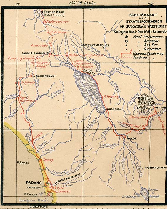 Map of network of the state railway system in Western Sumatra. Map section from "Kaart van Nederlandisch-Indie naar oorspronkelijke teekening van H. Ph. Th. Witkamp" 1893